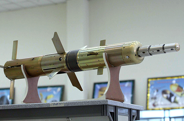 Iranian Toophan 5 anti-tank guided missile at a presentation in Iran. Note the canards on the forefront of the missile, which definitely distinguish it as the Toophan 5 variant.